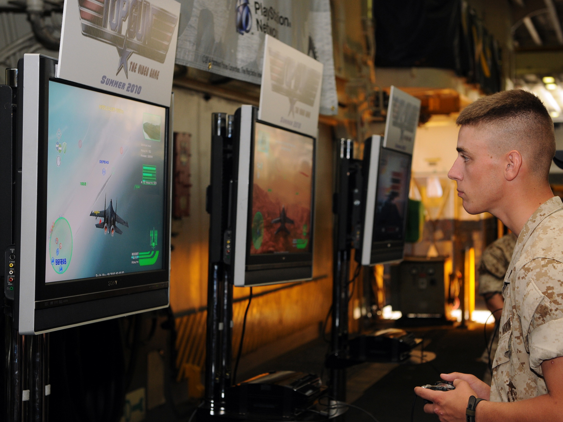 ATLANTIC OCEAN (May 25, 2010) A Sailors en route to Fleet Week New York aboard the multipurpose amphibious assault ship USS Iwo Jima (LHD 7) play a demonstration copy of the new Top Gun video game for the Playstation 3 gaming system inside the ship's hangar bay. Approximately 3,000 Sailors, Marines and Coast Guardsmen are participating in the 23rd Fleet Week New York, which will take place May 26-June 2. Fleet Week has been New York City's celebration of the sea services since 1984. (U.S. Navy photo by Mass Communication Specialist 3rd Class Ash Severe/Released)